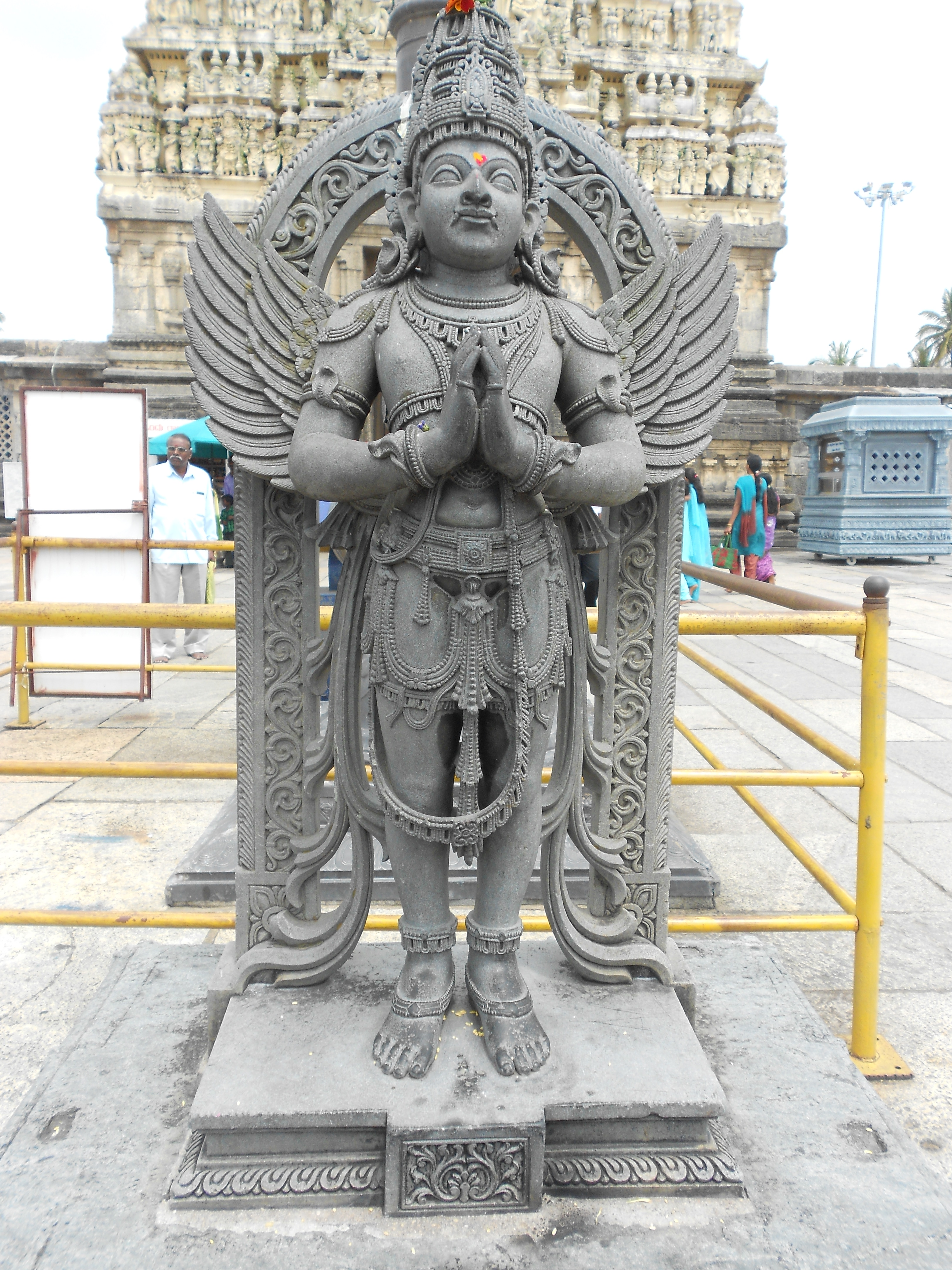 Garudeshwara the vihicle of lord Vishnu opposite to Channakeshava Swamy in Belur